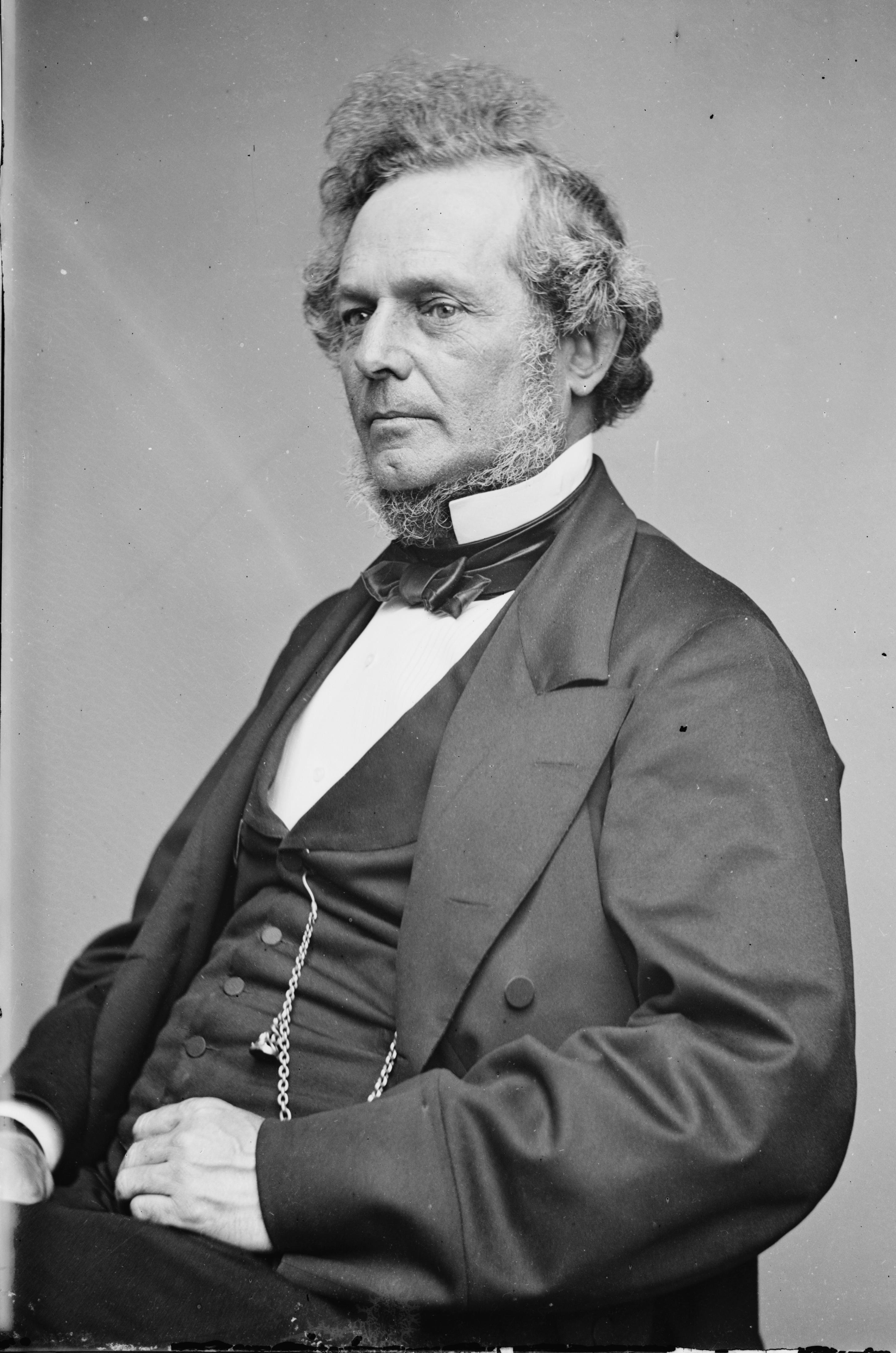 Richard March Hoe. Library of Congress description: "Richard Hoe".